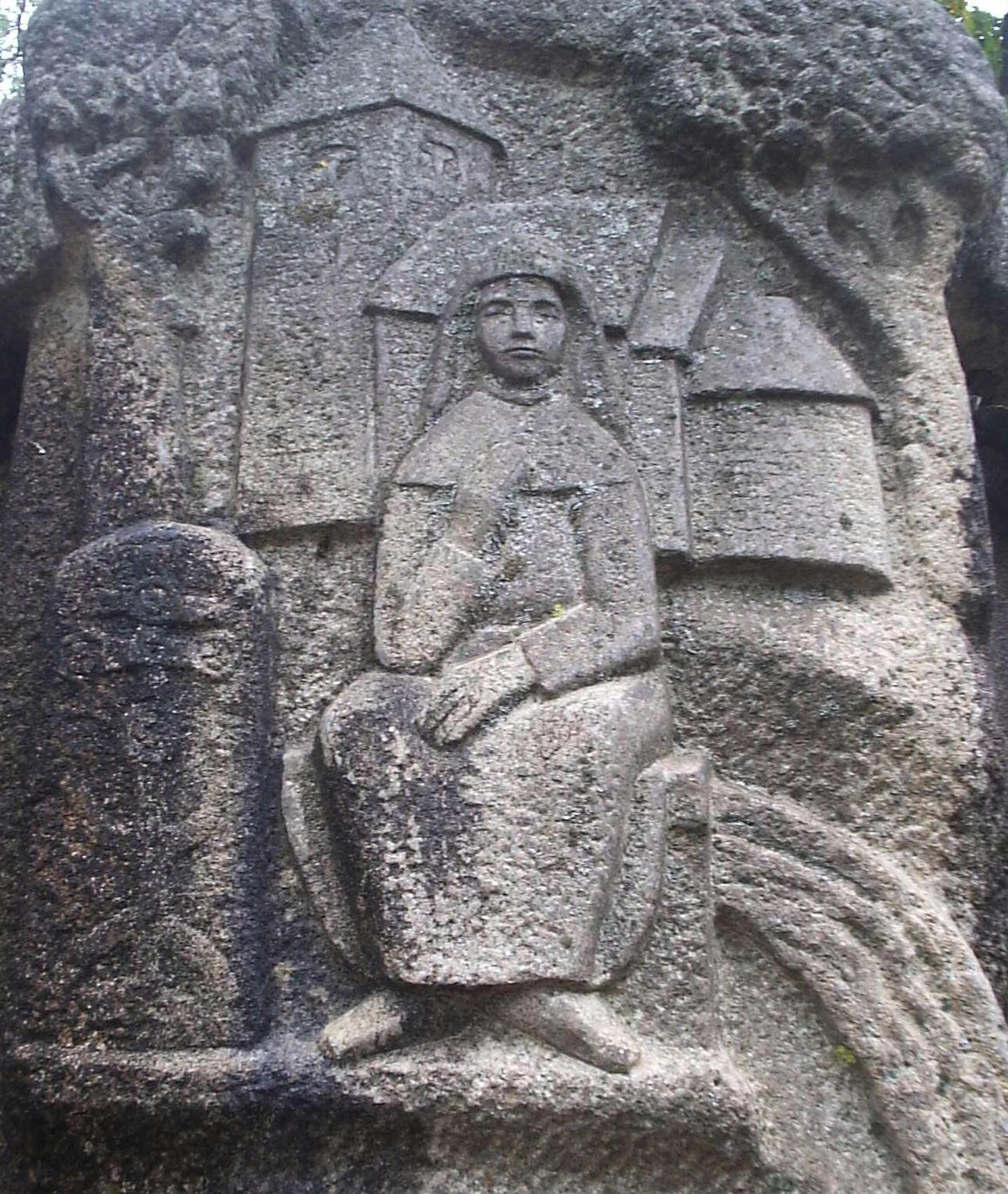 Saint Helena of Skövde. Photo by Harri Blomberg.